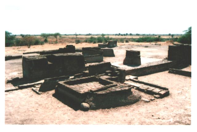 bath and toilet in houses in Lothal (India)